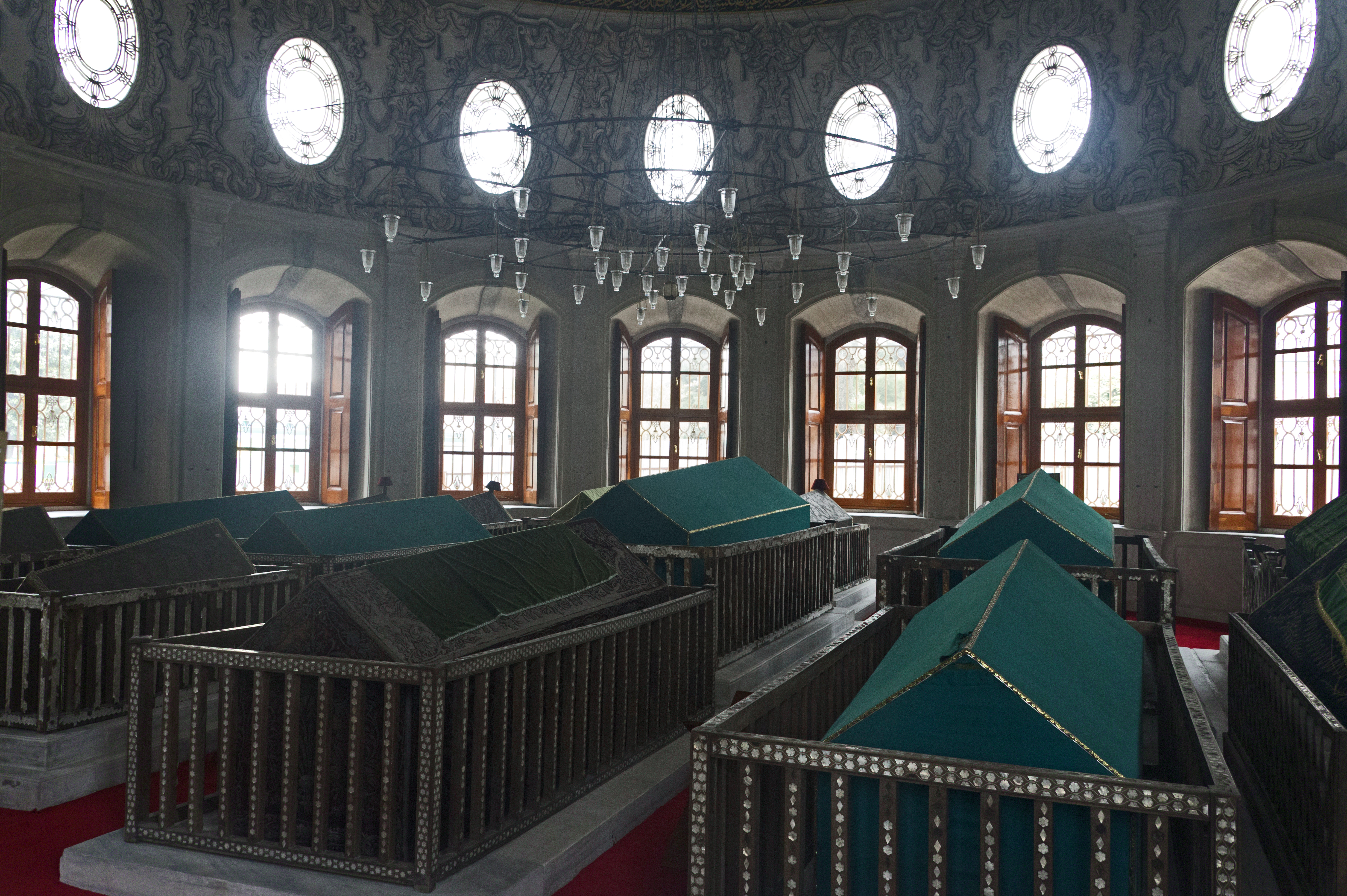 Nakşidil Valide Sultan's mausoleum is in the style of baroque-Empire, it's near the Fatih Mosque. The türbe has 14 sides, with unique oval windows in the upper row of two rows of windows. With its slender (too slender) columns Strolling through Istanbul considers it to be a very original and entertaining building. In 2018 it was possible to visit after a restopration, through a gate at the Fatih Türbesi Sokak. To the right side of the mausoleum's courtyard another türbe was being restored, that of Gülüstü Valide Sultan, mother of Mehmet VI Vahdettin, the last Ottoman Sultan. This is a view through the windows into the actual türbe.